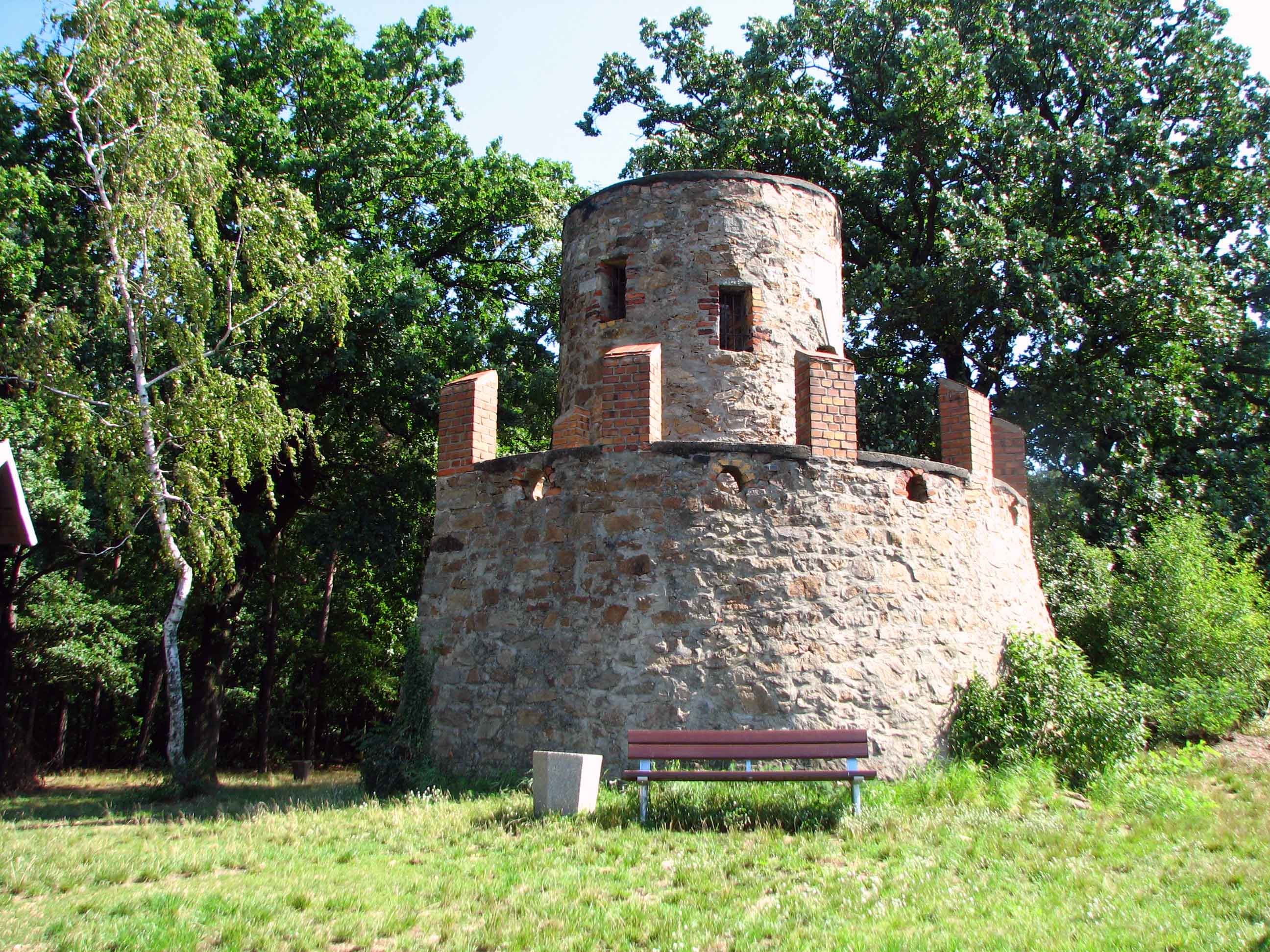 Artificial ruin in Weinböhla